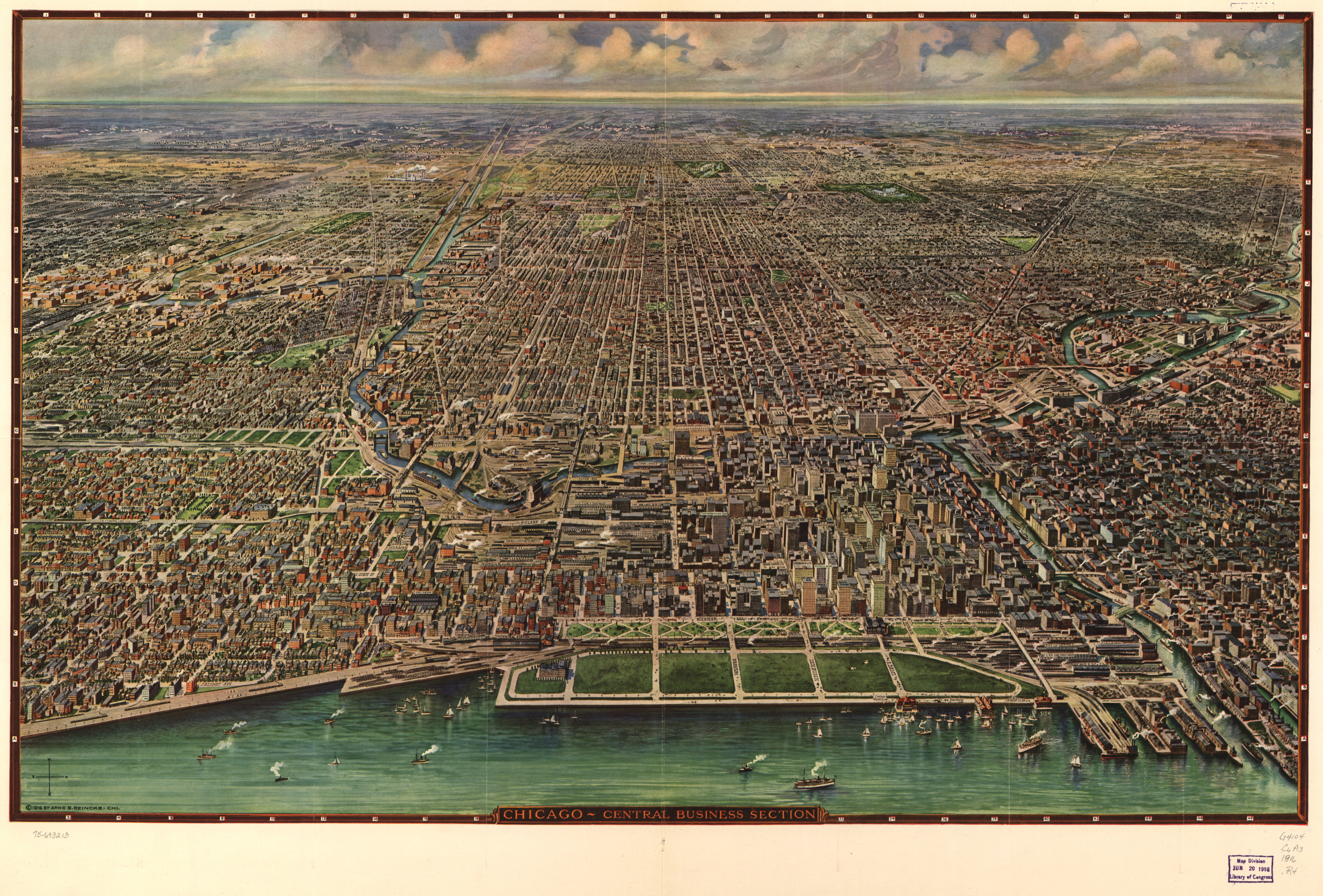 Chicago, central business section